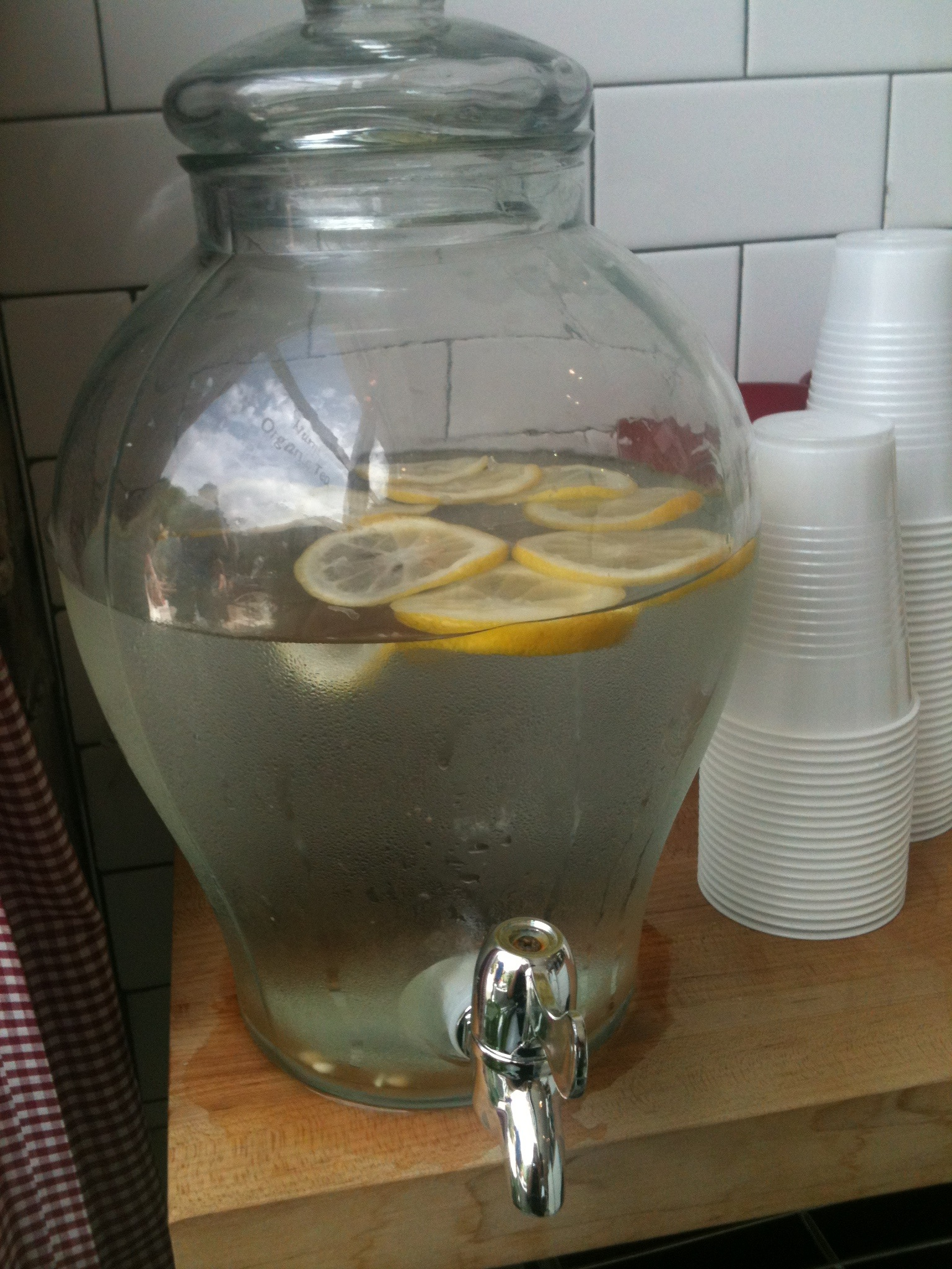 Water dispenser with lemons.